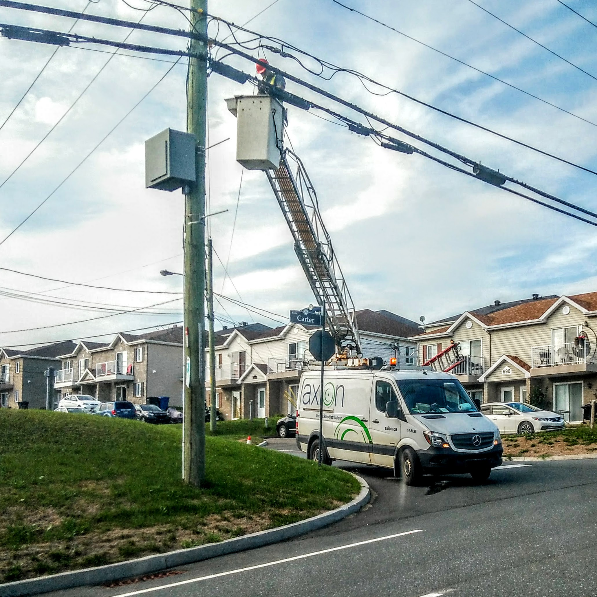 An Axion Cable technician is repairing optical fibre cable in Sainte-Marie, Quebec.